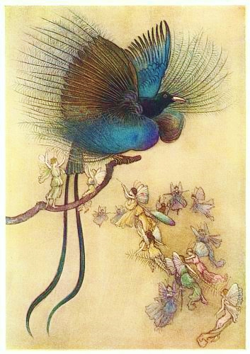 Illustration from "The Water-Babies - A Fairy Tale for a Land-Baby" by Charles Kingsley, illustrated by Warwick Goble